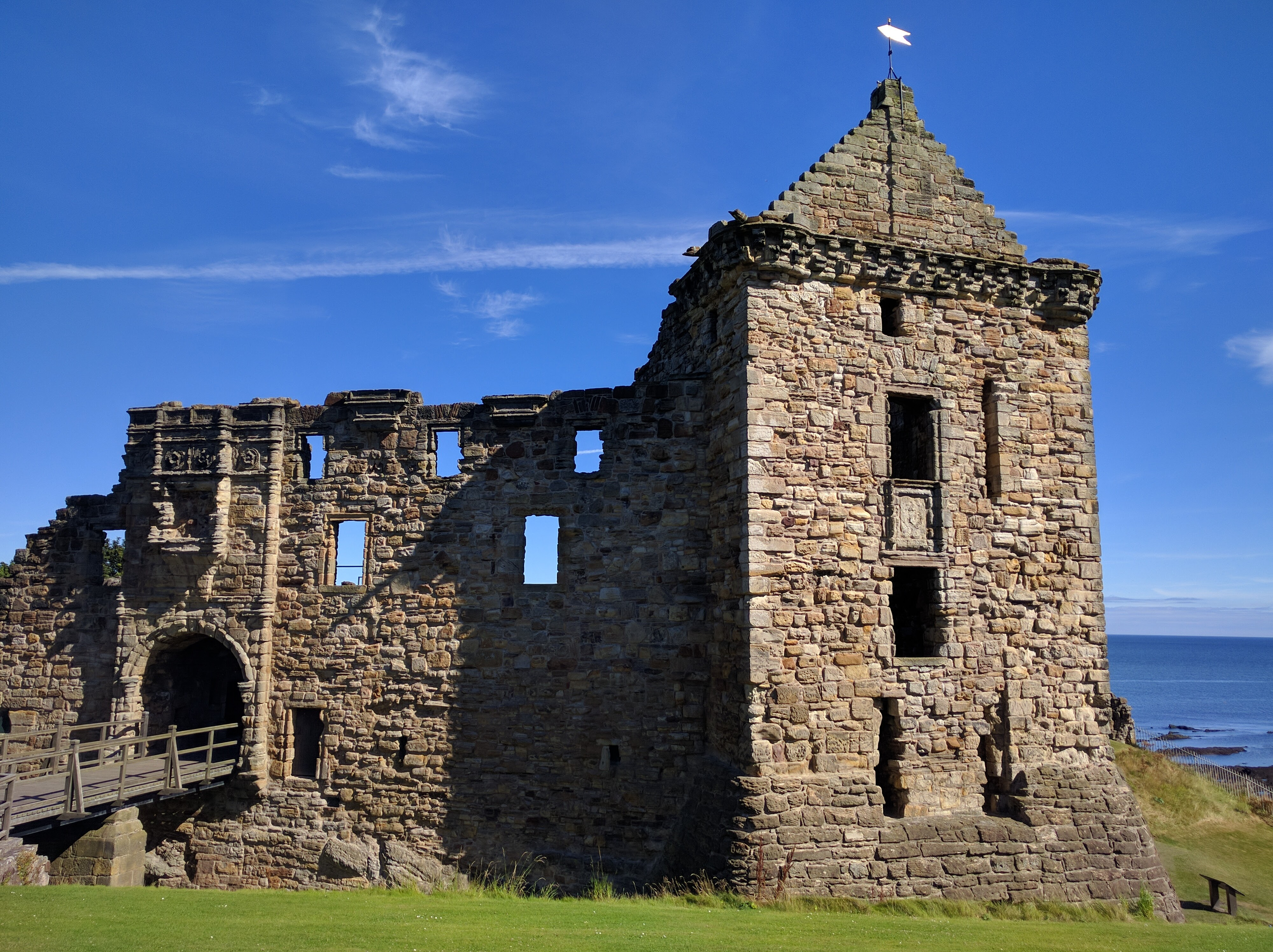 St Andrews Castle Front view.